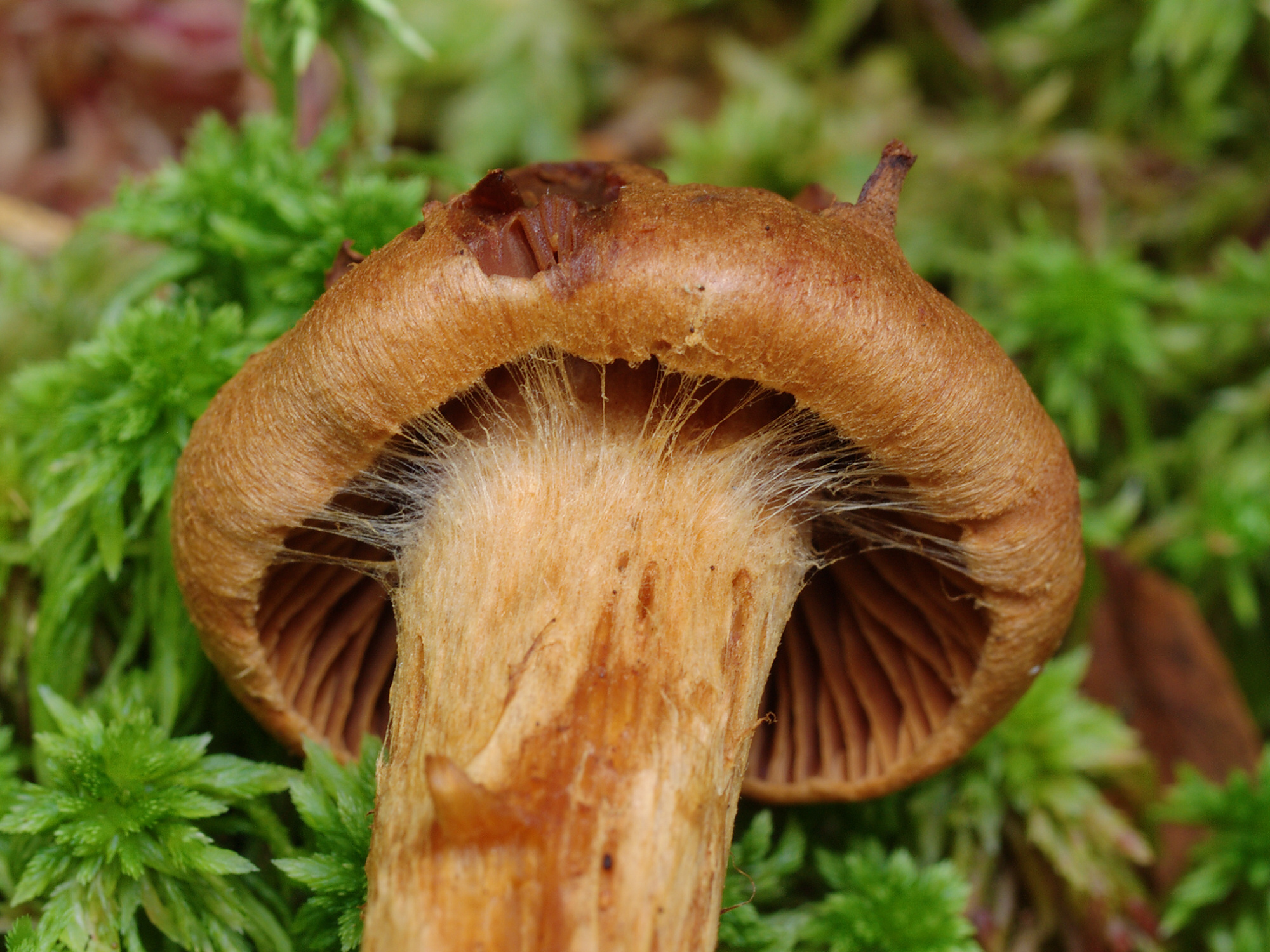 Deadly Webcap (Cortinarius rubellus)